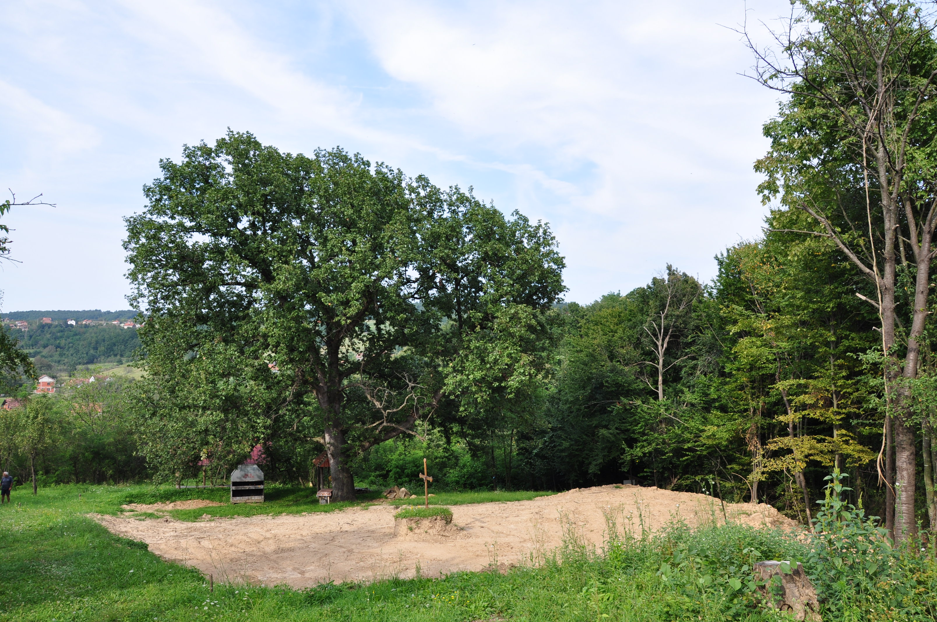 Zapis - Sacred Tree, Оак in village Trmbas, municipality Kragujevac, Serbia